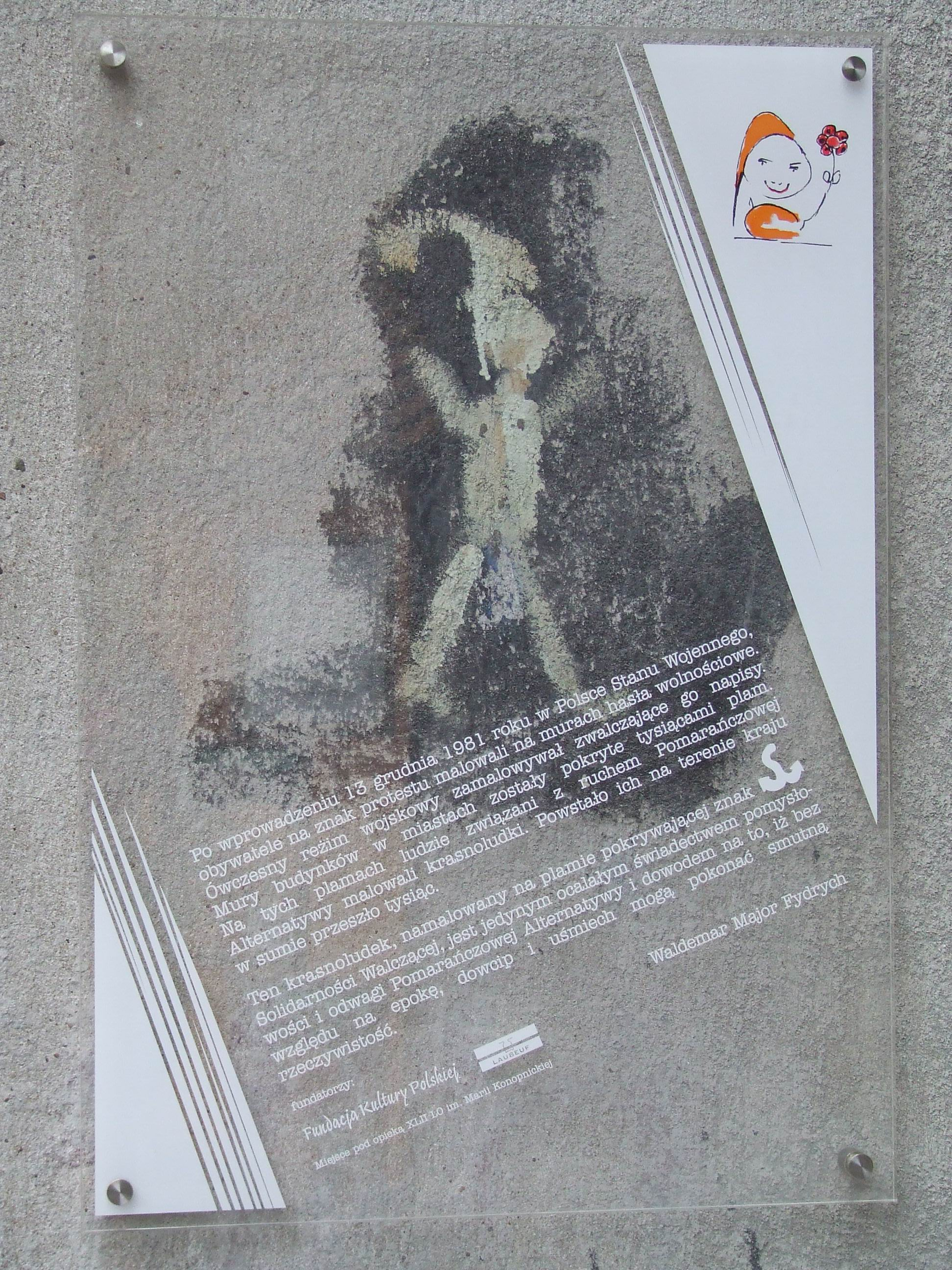 Orange Alternative Dwarf painting on the wall of Madalińskiego Street in Warsaw